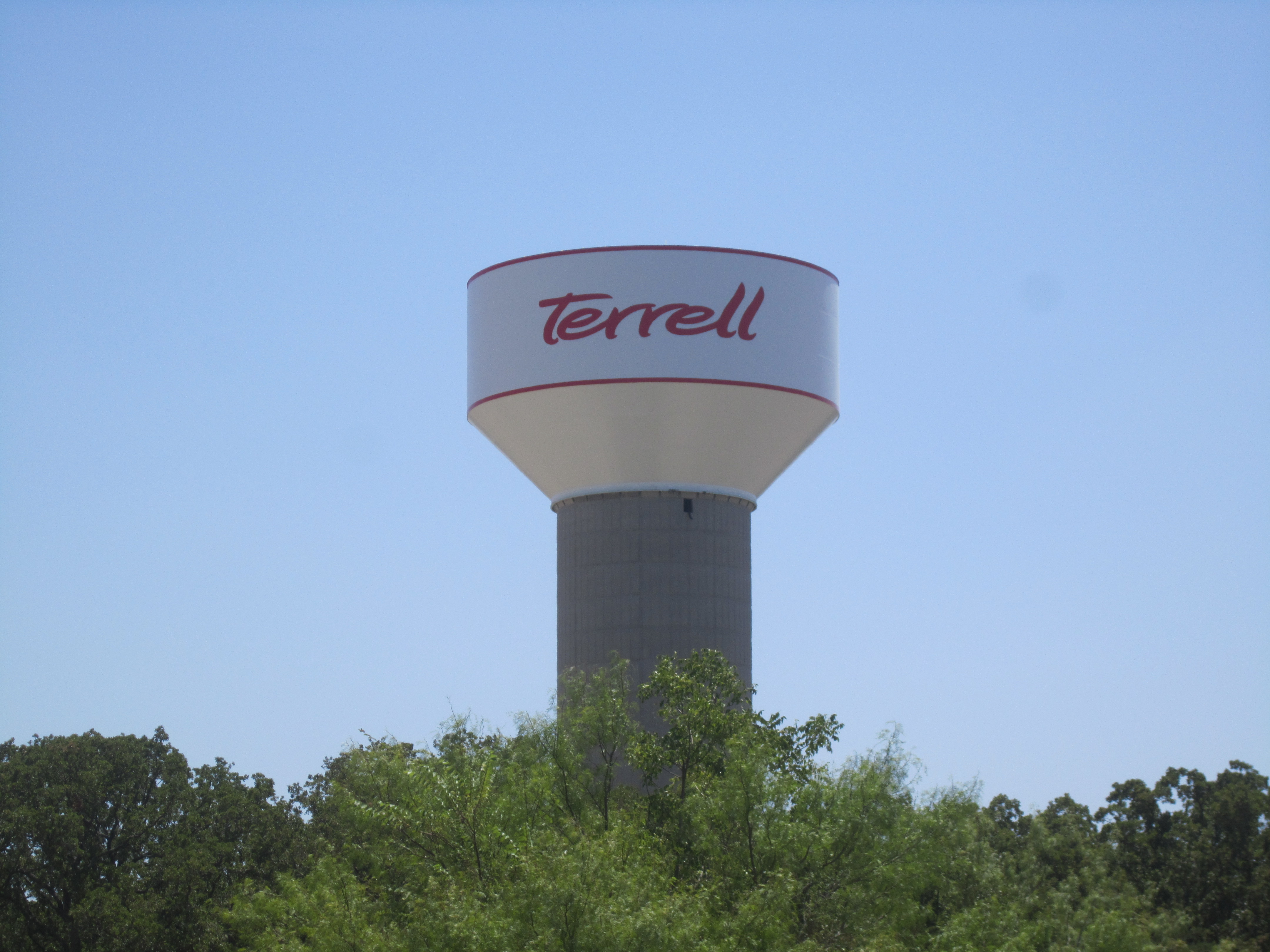 I took photo with Canon camera of water tower in Terrell, TX.